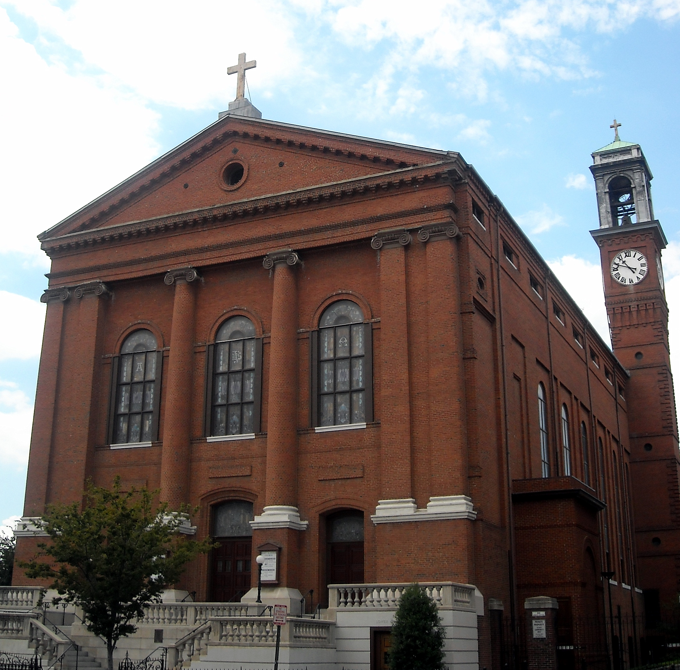 St. Aloysius Catholic Church at 19 I Street, NW in Washington, D.C. The church is listed on the National Register of Historic Places.